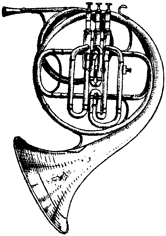 Drawing of a modern horn (French horn) made by Boosey & Co.